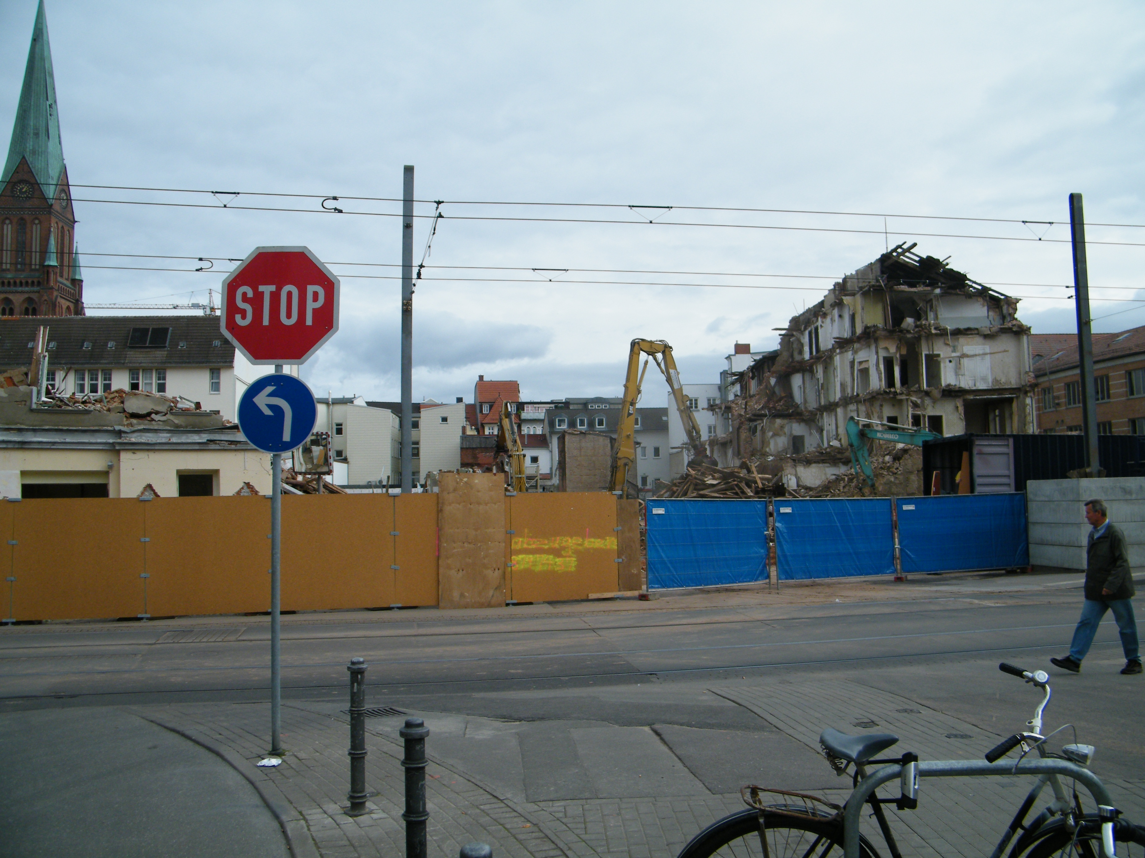 Demolition in progress at the Marienplatz in Schwerin